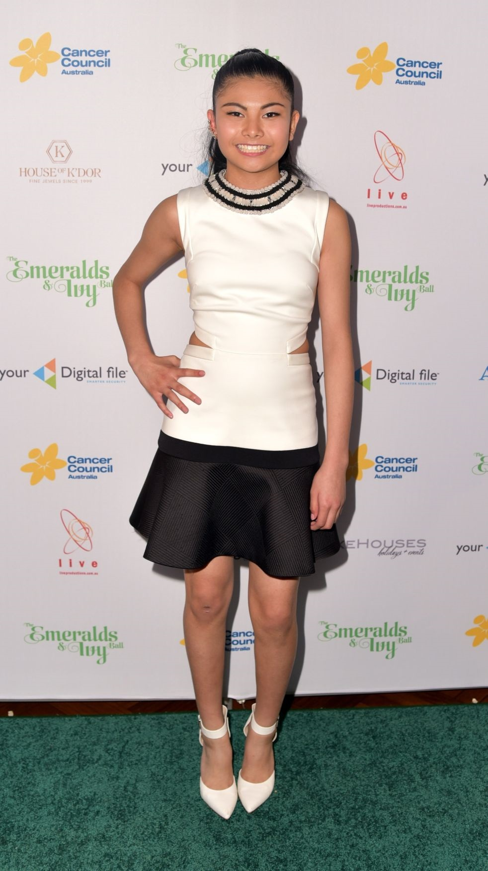 Marlisa Punzalan at the Emeralds & Ivy Ball.